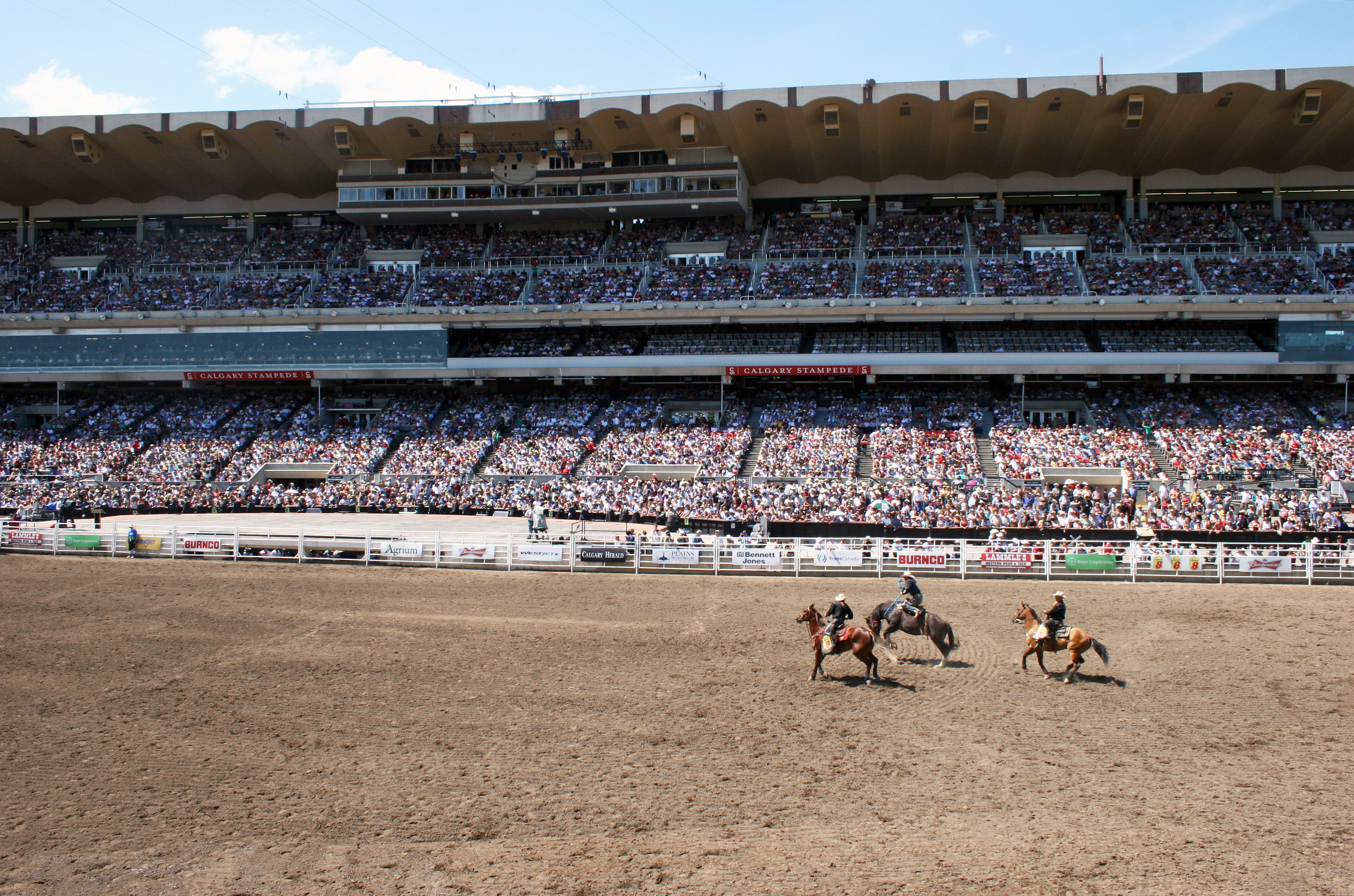 Competion in the bareback bronc riding during the final day of the Calgary Stampede in Calgary.